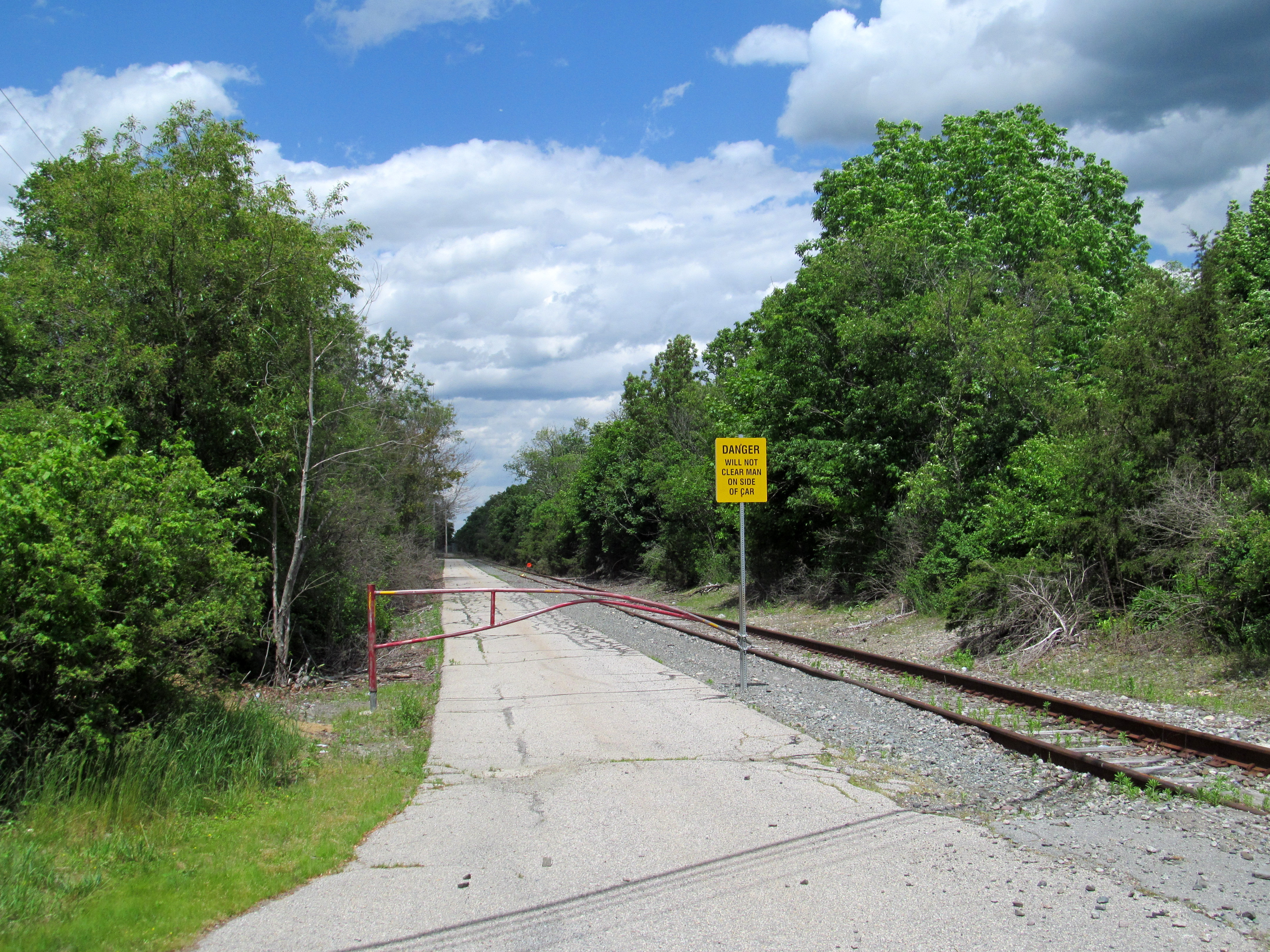 Access road to the former Attleboro layover yard along the East Providence Branch in June 2017